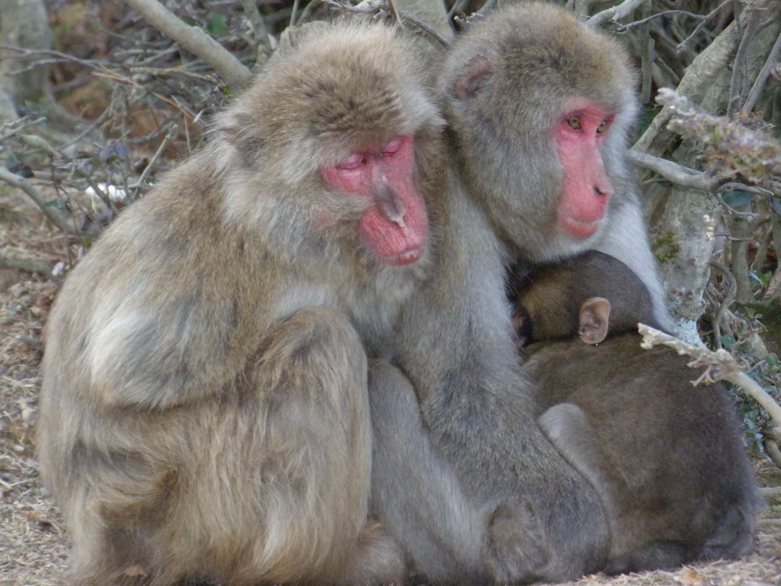 Monkey Park in Arashiyama, Kyoto.